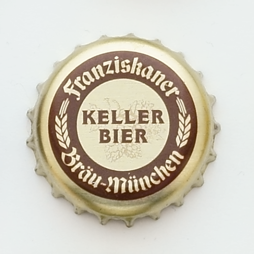 Bottle caps from different countries